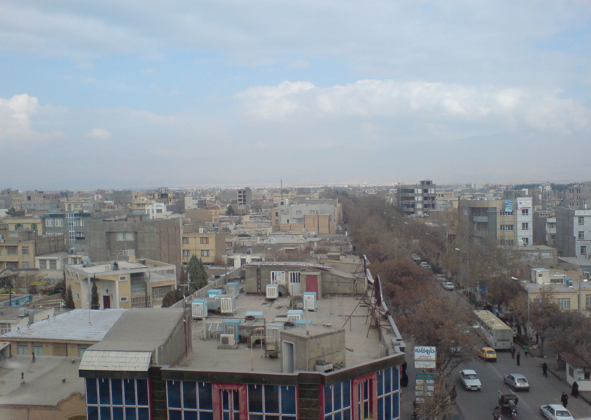 Nishapur_Panorama_at_north_view